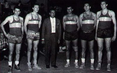 The basketball team of Argentine club Boca Juniors, that won all the tournaments contested during three consecutive years (1961-63).